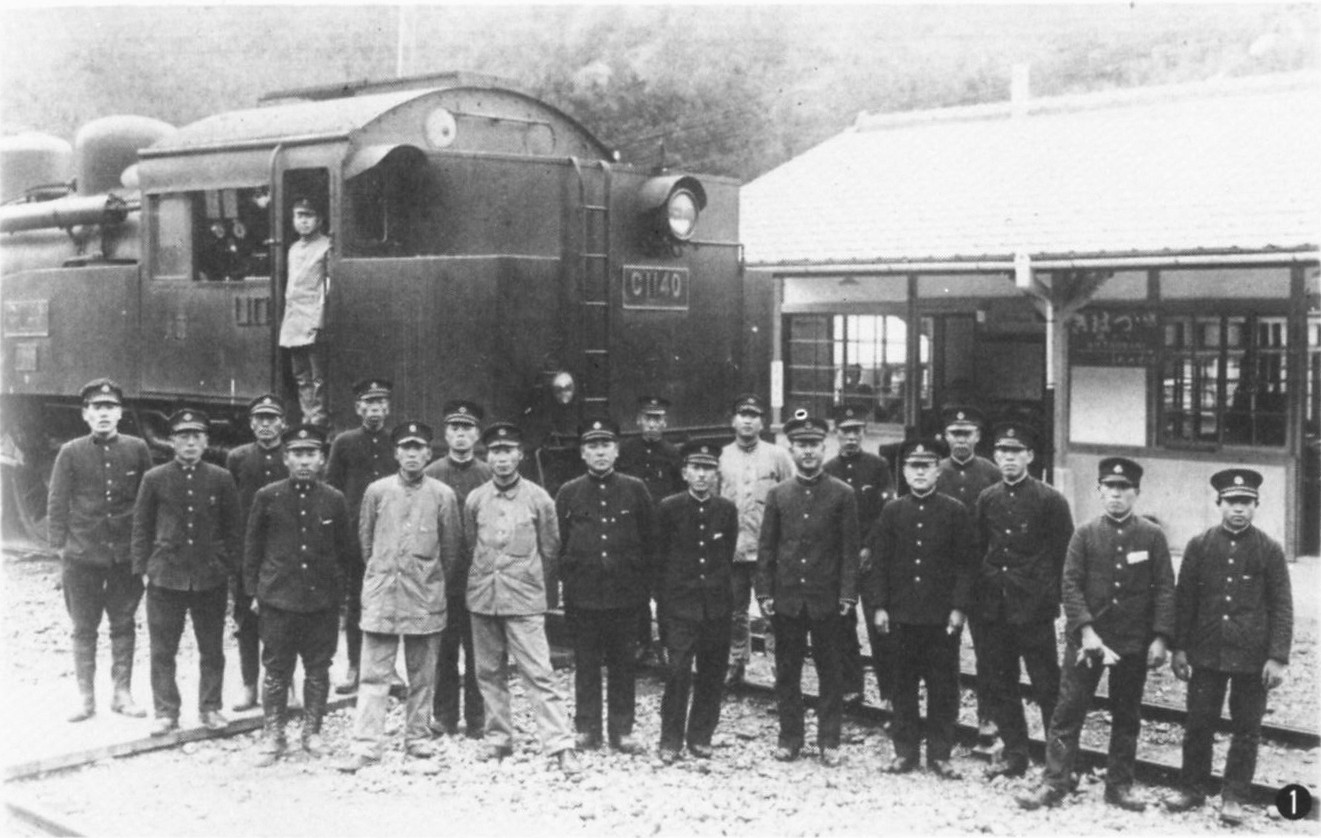 Kii-Tsubaki Station (now Tsubaki Station) on Kisei West Line (now part of Kisei Main Line) around 1935